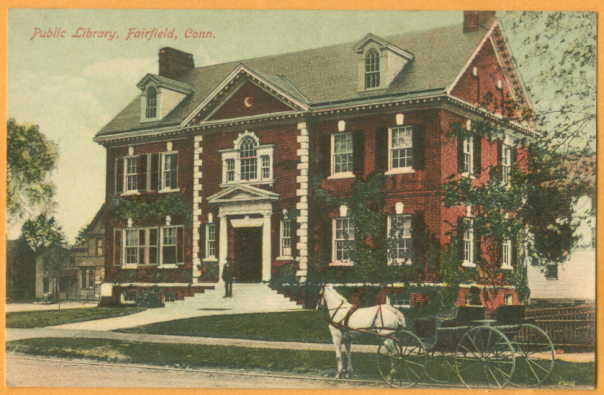 Vintage postcard from c. 1910 showing public library in Fairfield, Connecticut